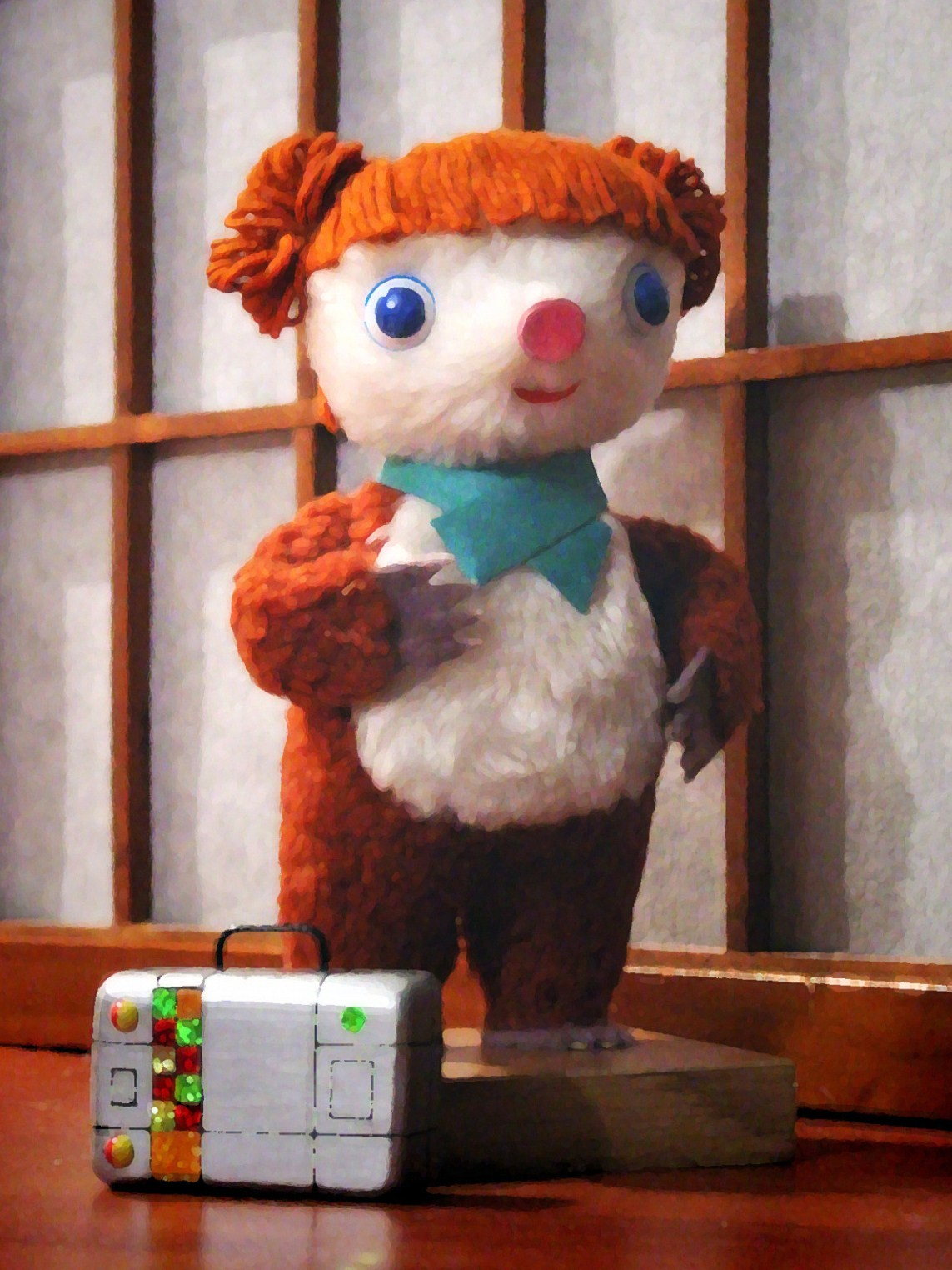 Colargol with a suitcase.